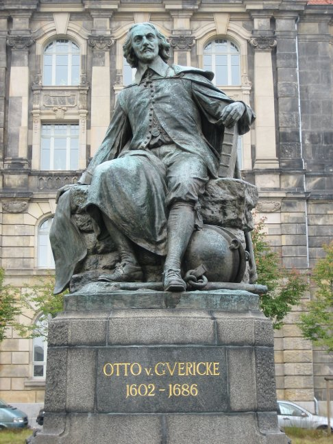 A picture from Magdeburg, Alter Markt with a statue of Otto von Guericke, sculpted by Carl Friedrich Echtermeier Taken by Erik Andrén, (The Ace) 2005-10-03 using a Canon Digital IXUS 50